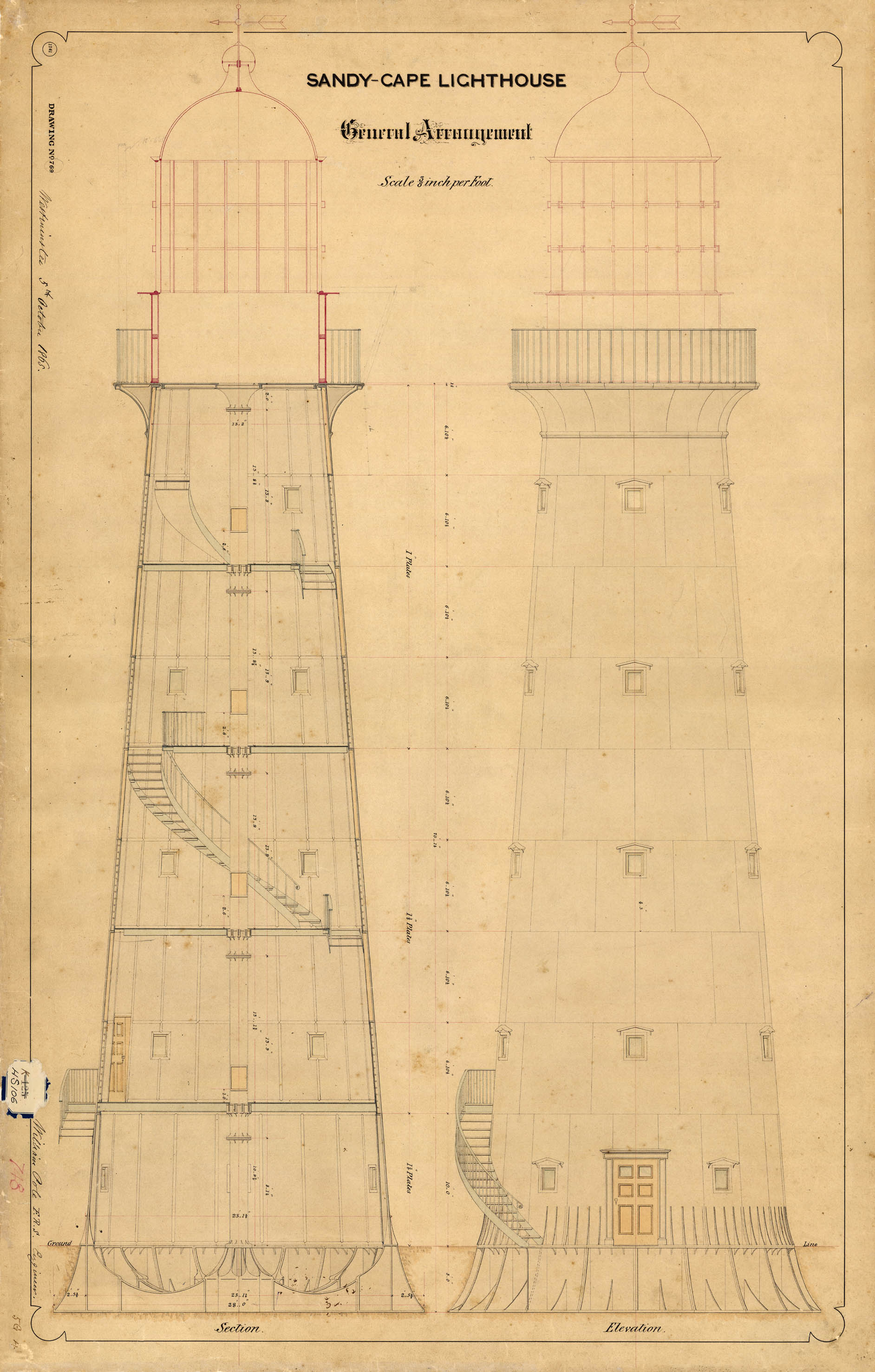 Sandy Cape Light, general arrangements, 1865